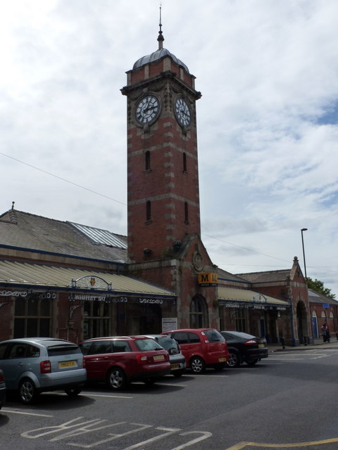 Whitley Bay railway station